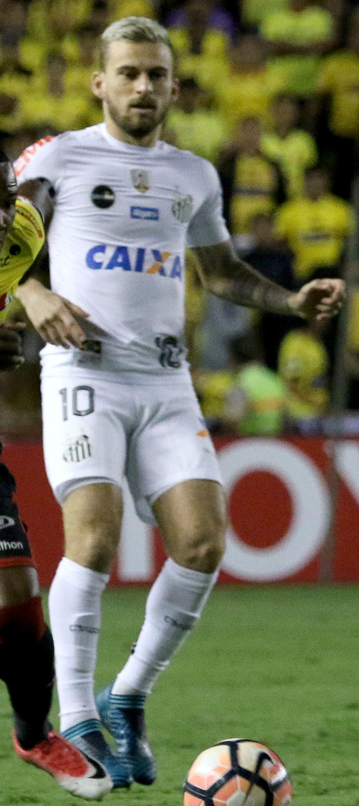 Guayaquil, 13 de septiembre del 2017 (Andes).-En el estadio Monumental Barcelona de Ecuador enfrenta al Santos de Brasil en partido de ida por cuartos de final de la Copa LibertadoresFoto:Andes/César Muñoz